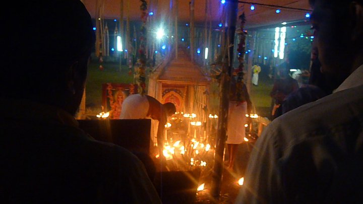 Dheeparadhana in Sree. Parthasaradhi Temple, Kodussery